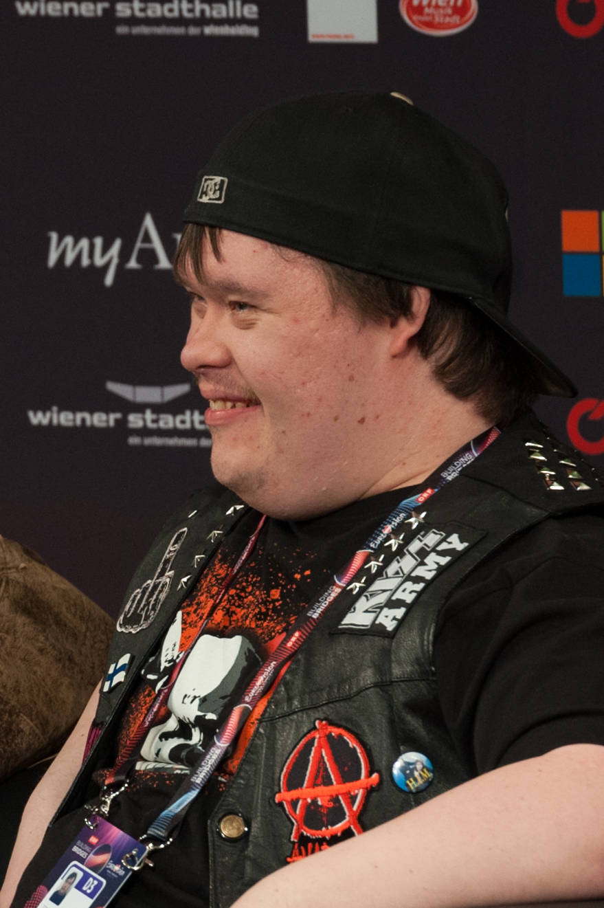 Eurovision Song Contest Vienna 2015: Pertti Kurikan Nimipäivät